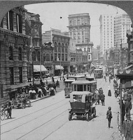 old black and white photo of Peachtree Street, Atlanta, GA